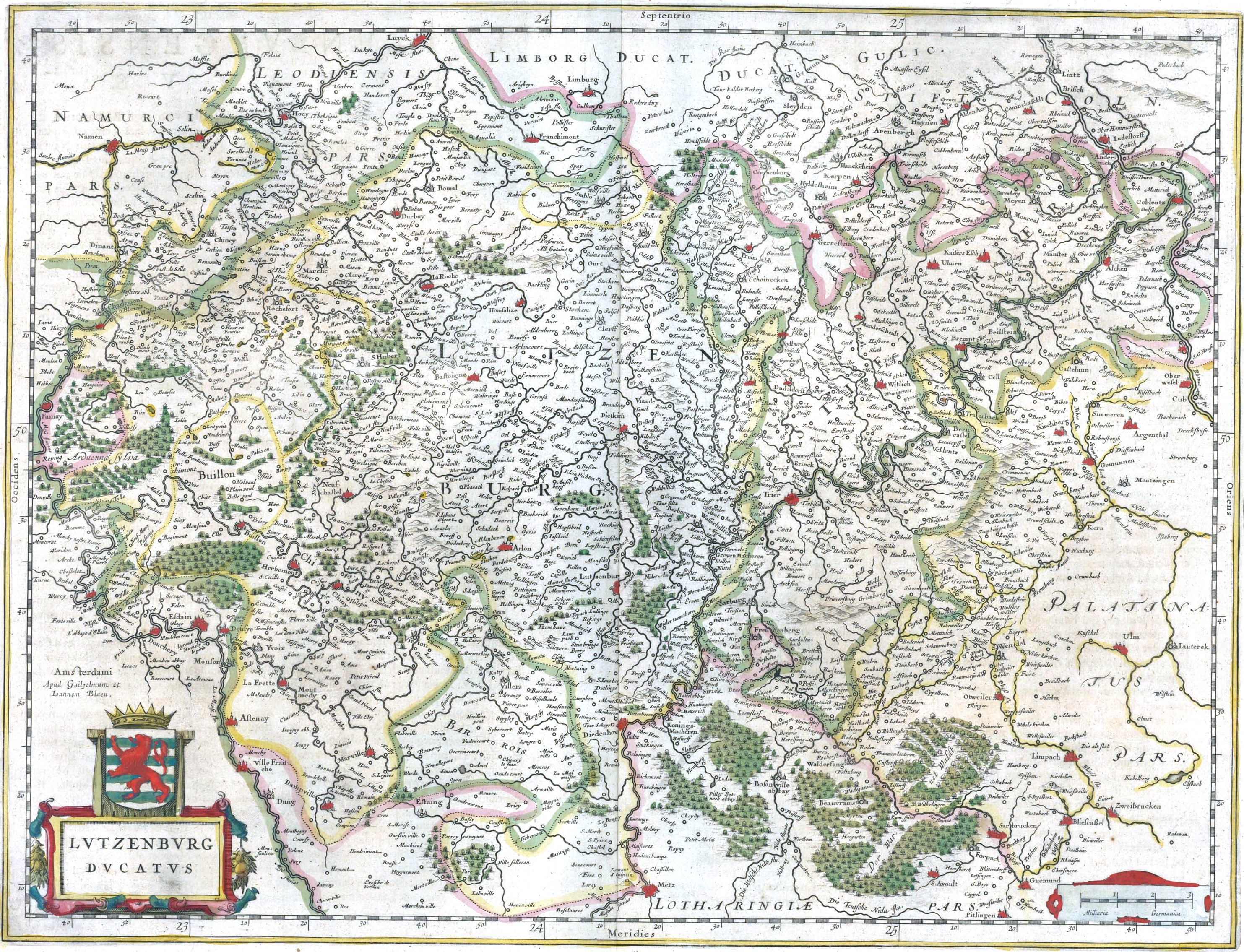 Map of the Duchy of Luxembourg in 1645.